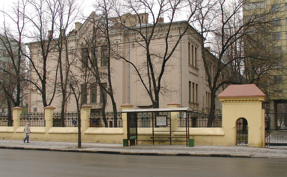 Old hospital bldg., 27 Bolshaya Serpukhovskaya Street, Moscow